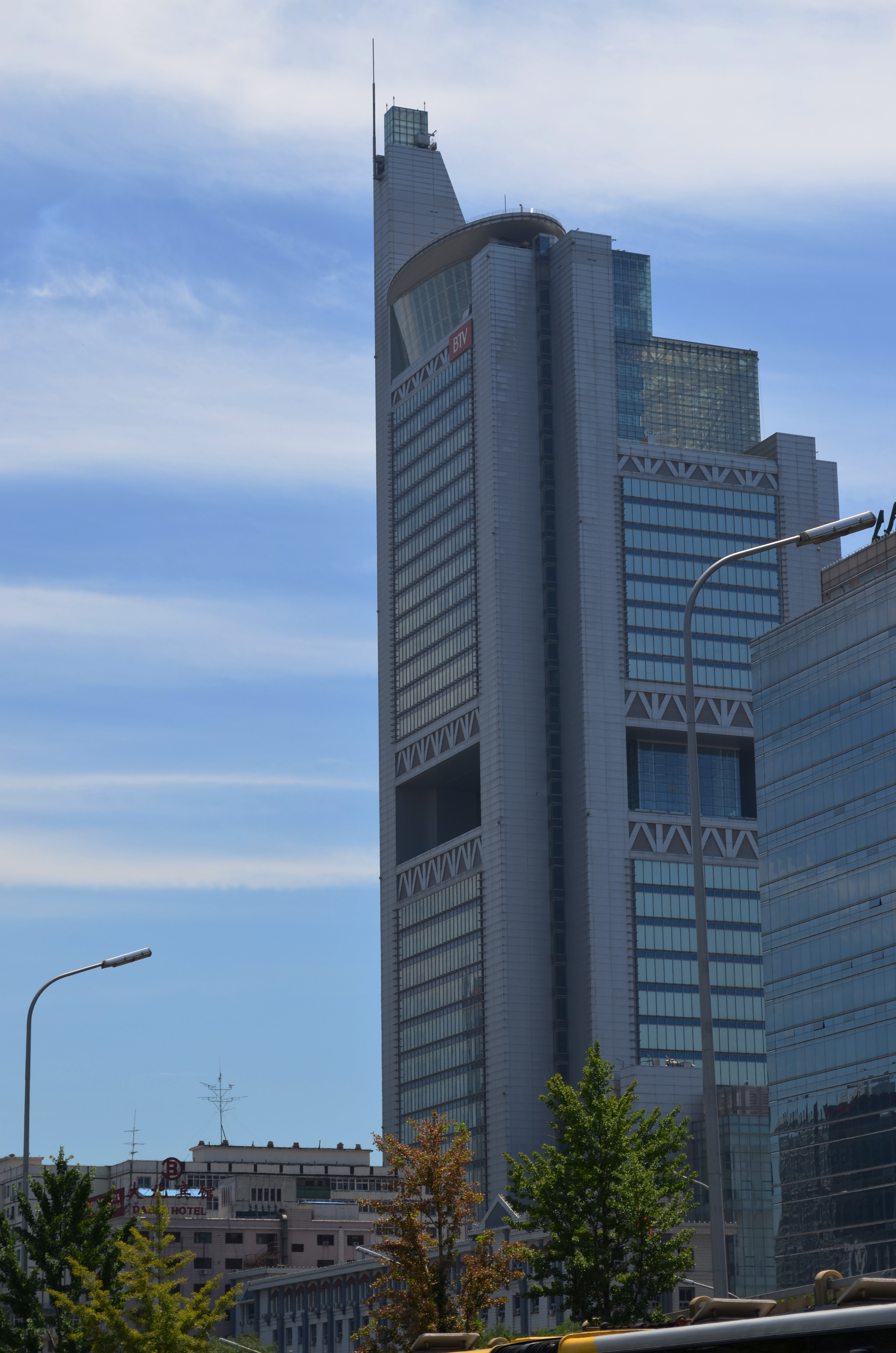 Beijing Television